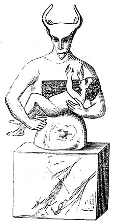 Moloch